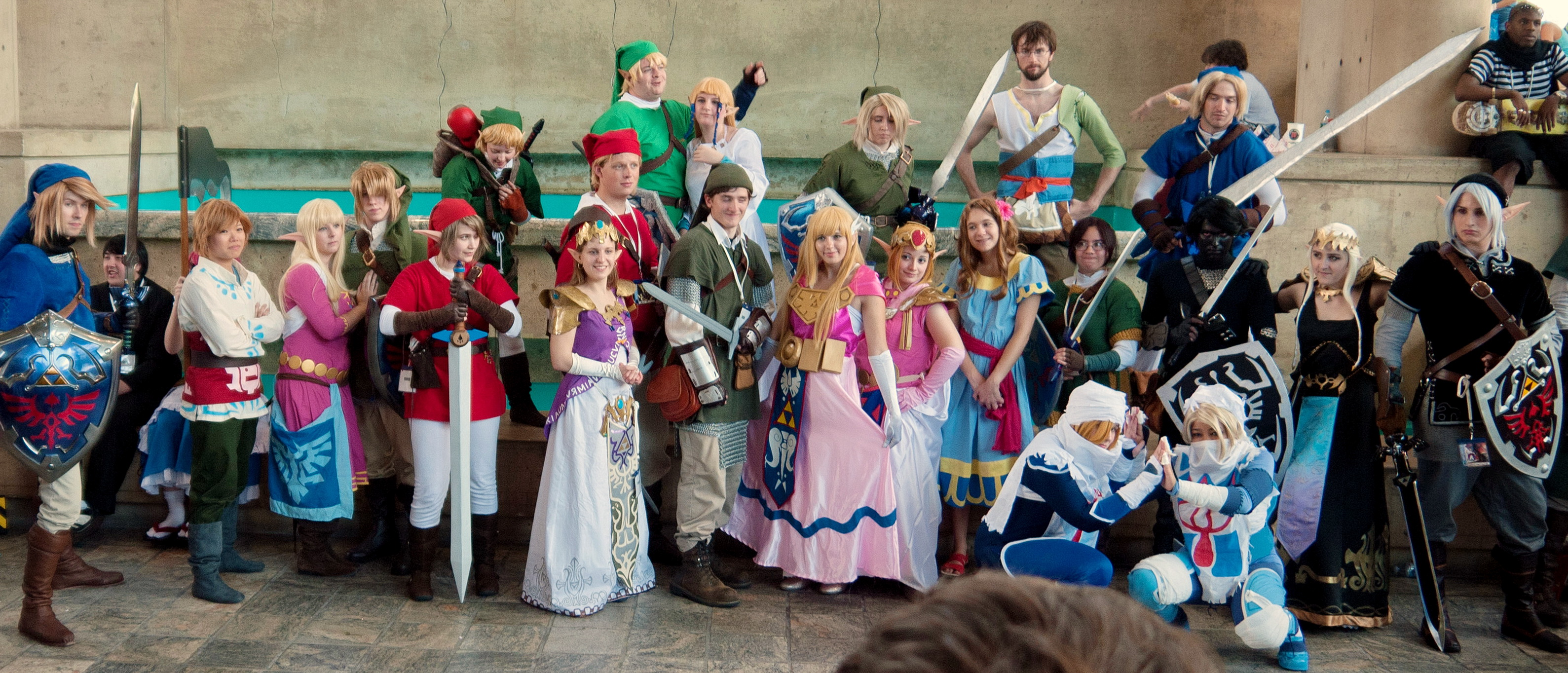 Edited from the original.